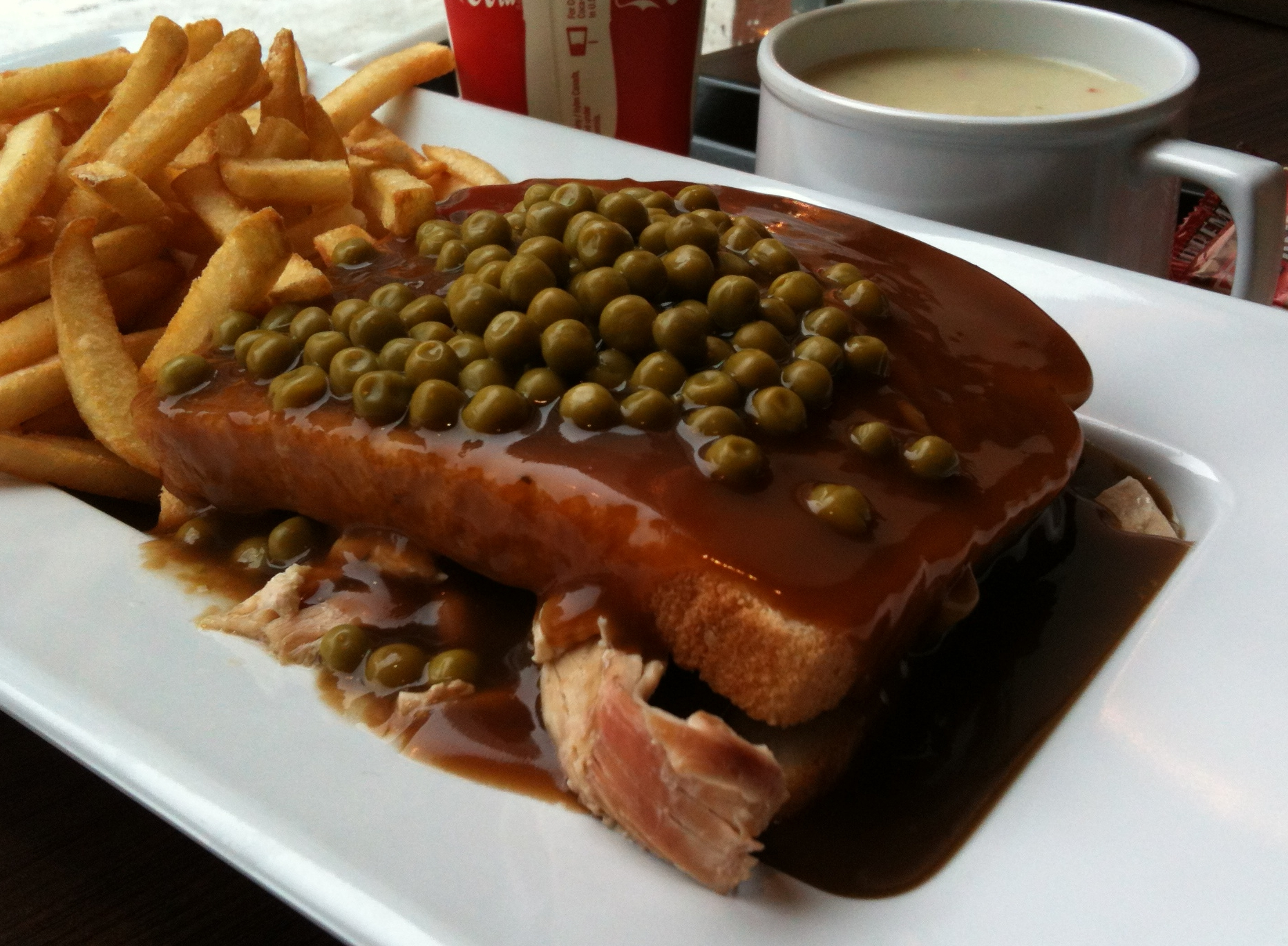 Hot Chicken sandwich and sides from Les Rôtisseries St-Hubert